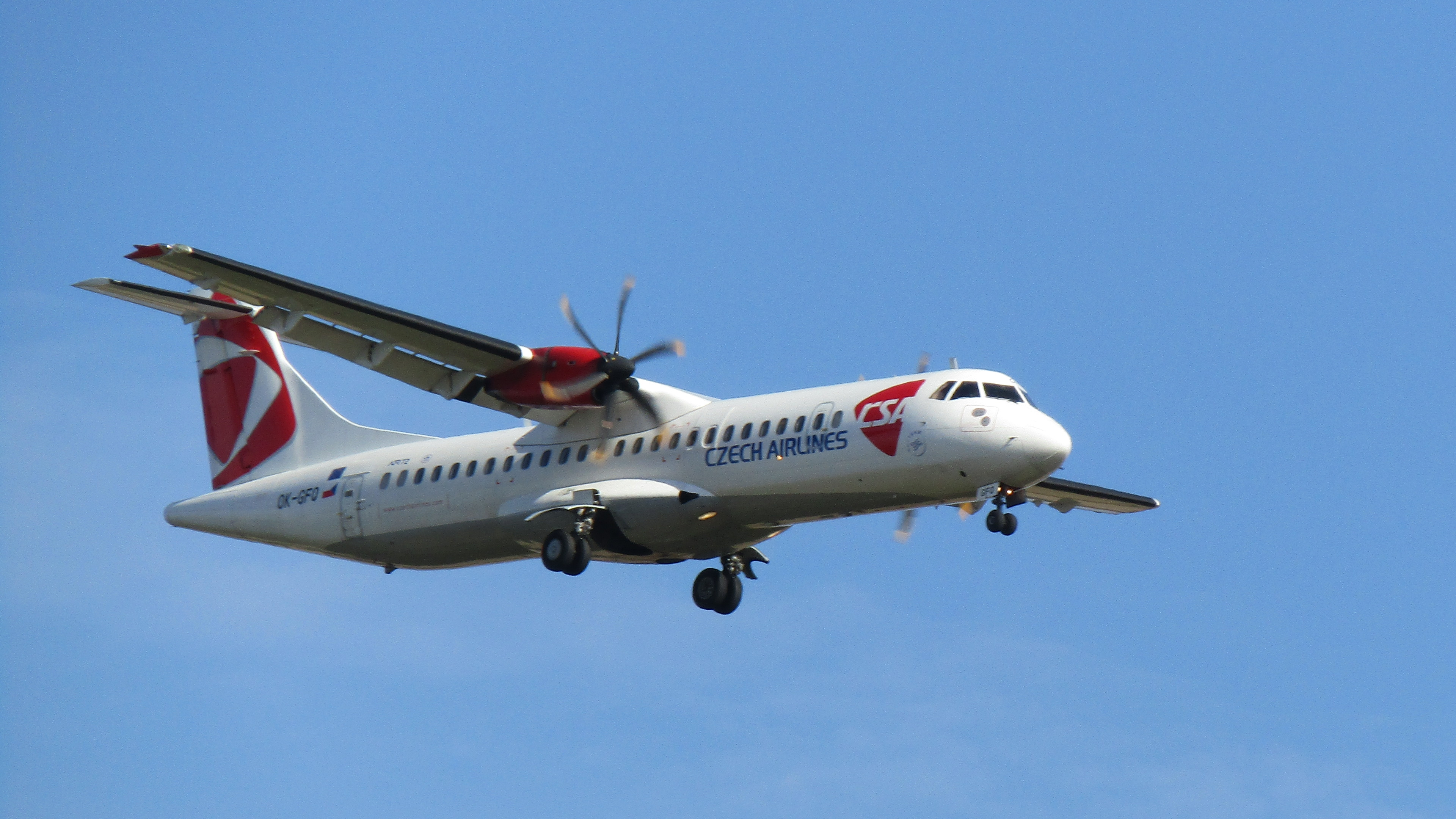 ATR 72, Czech Airlines, OK-GFQ